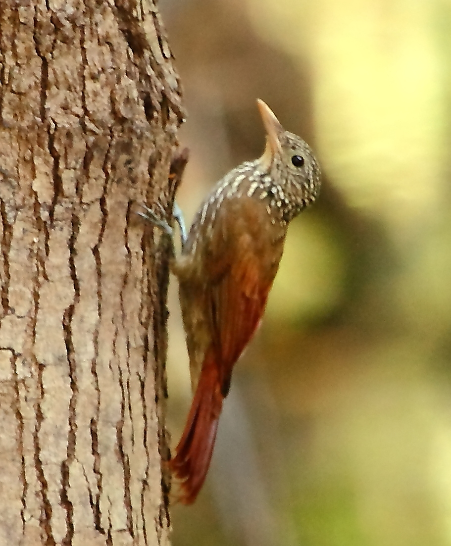 Striped Woocreeper at Manacapuru - AM - Brazil